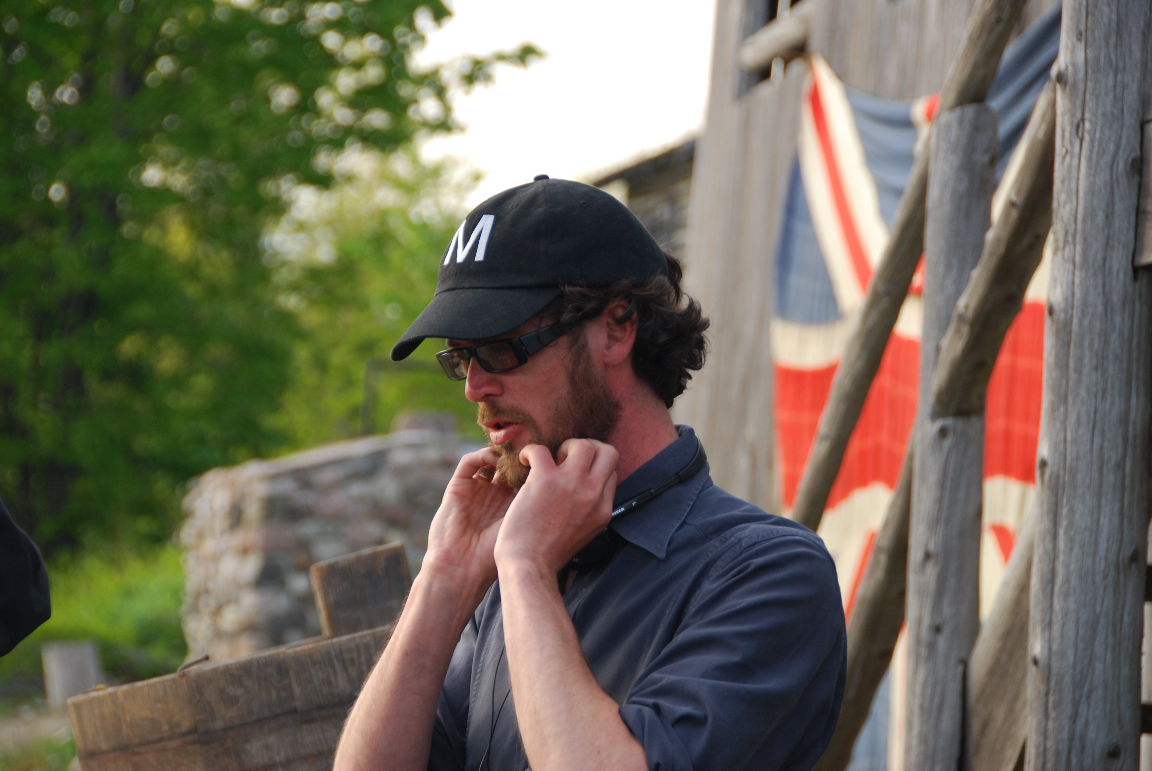 Picture of Ruan Magan